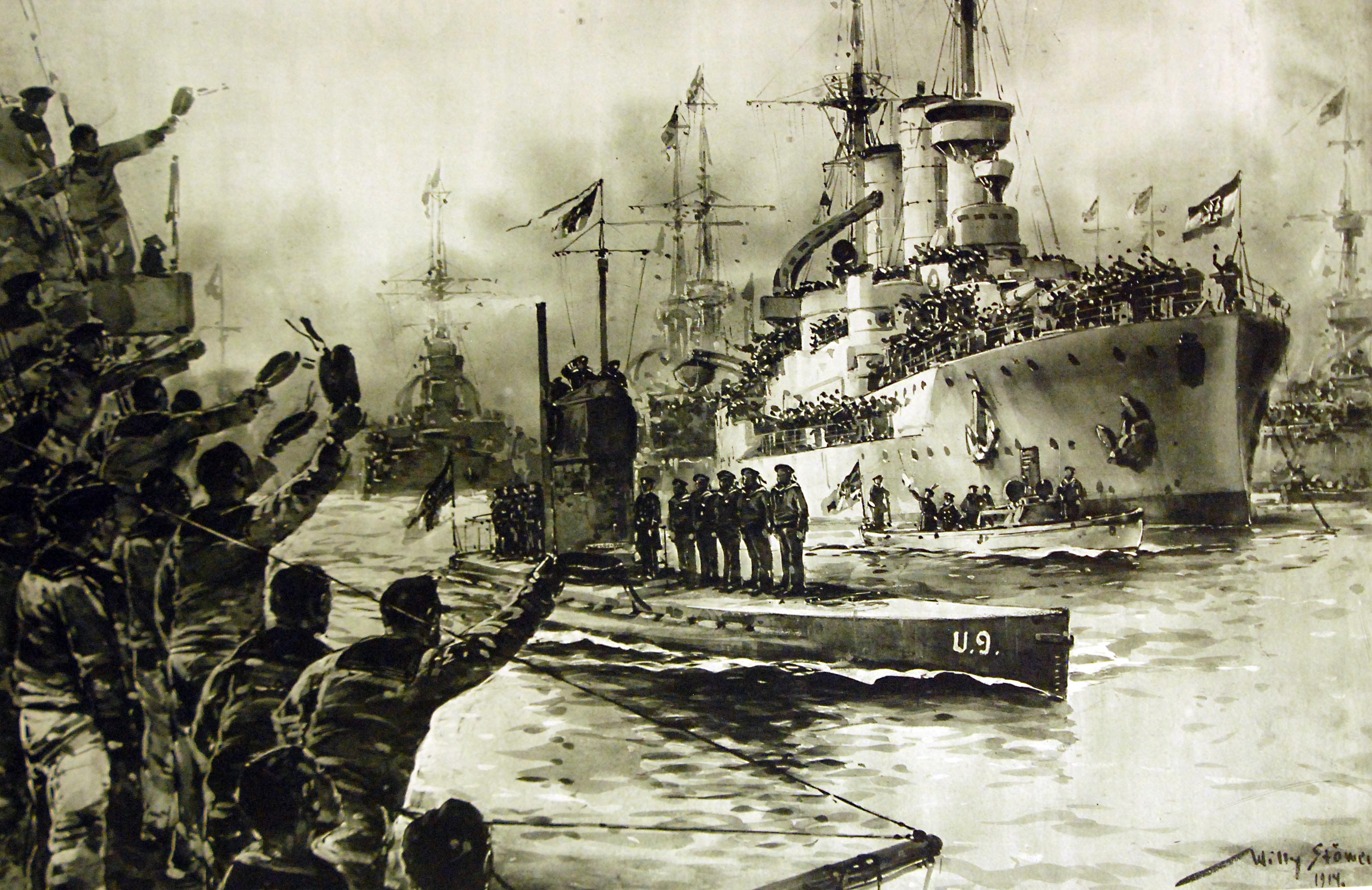 Lot-9630-3: WWI German Activities. German submarine, U-9, on return Wilhelmshaven, Germany. Artwork by Willy Stower, 1914. Halftone image from the publication, “The Imperial Navy in the World War,” 1914-17. Courtesy of the Library of Congress. (2016/10/21).